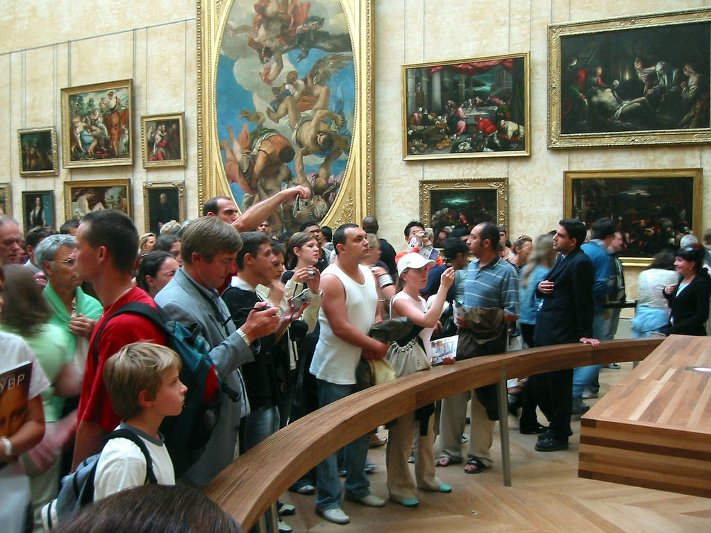 What the Mona Lisa sees all day